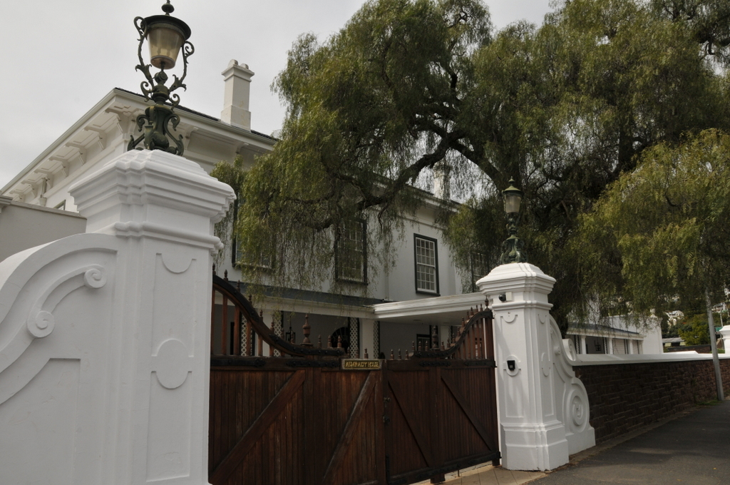 Admiralty House, St Georges Street, Simonstown - The building dates from the mid-18th century and its ownership was transferred to the Admiralty in 1814. Rear-Admiral Jahleel Brenton was the first of the navy commanders to live there. The building underwent extensive changes in 1853, and was declared a National Monument under old NMC legislation on 20 October 1972. This media shows a South African Protected Site with SAHRA file reference 9/2/081/0039.